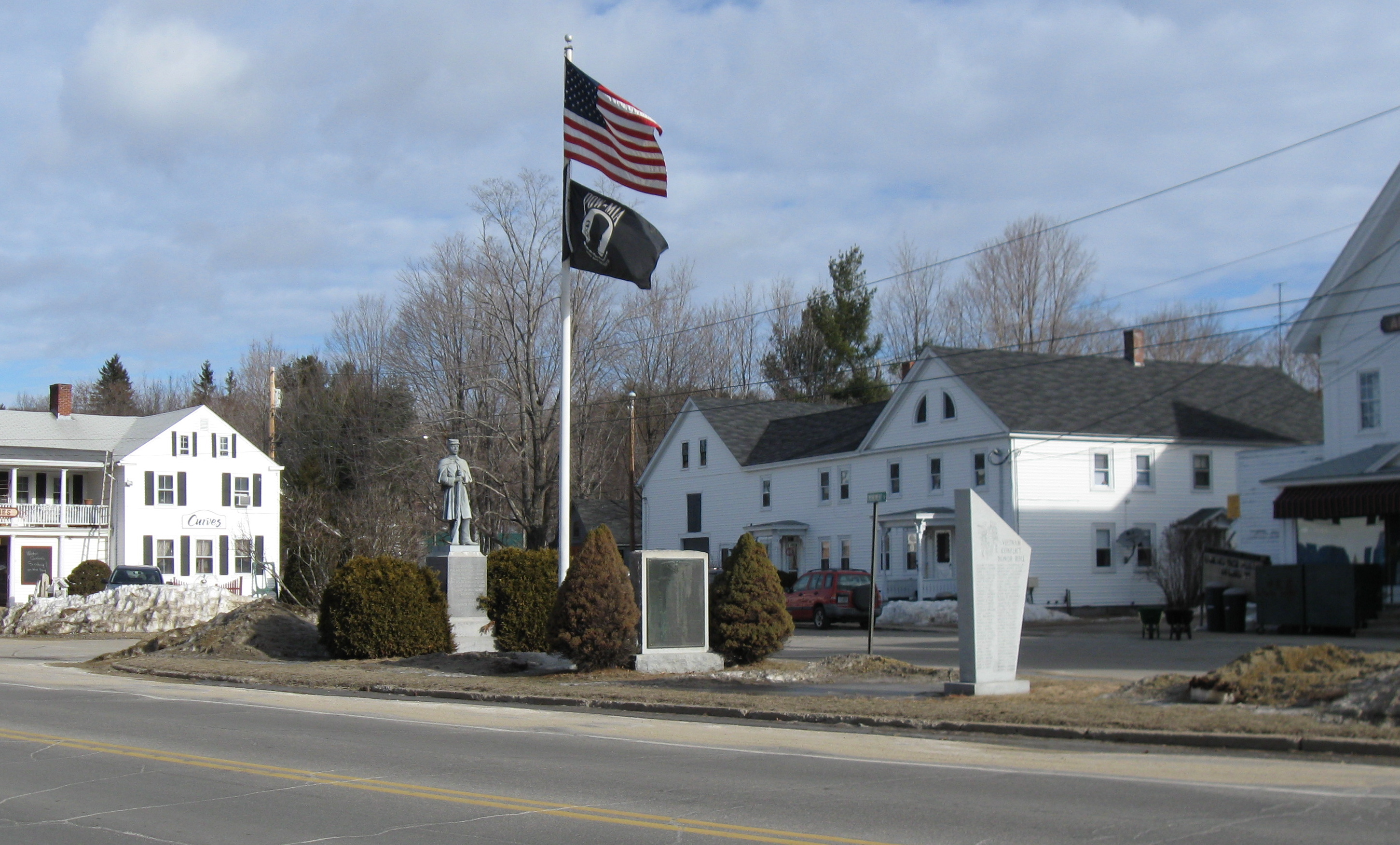 Monument Square, Alton, New Hampshire. Photo by Ken Gallager, February 15, 2010.